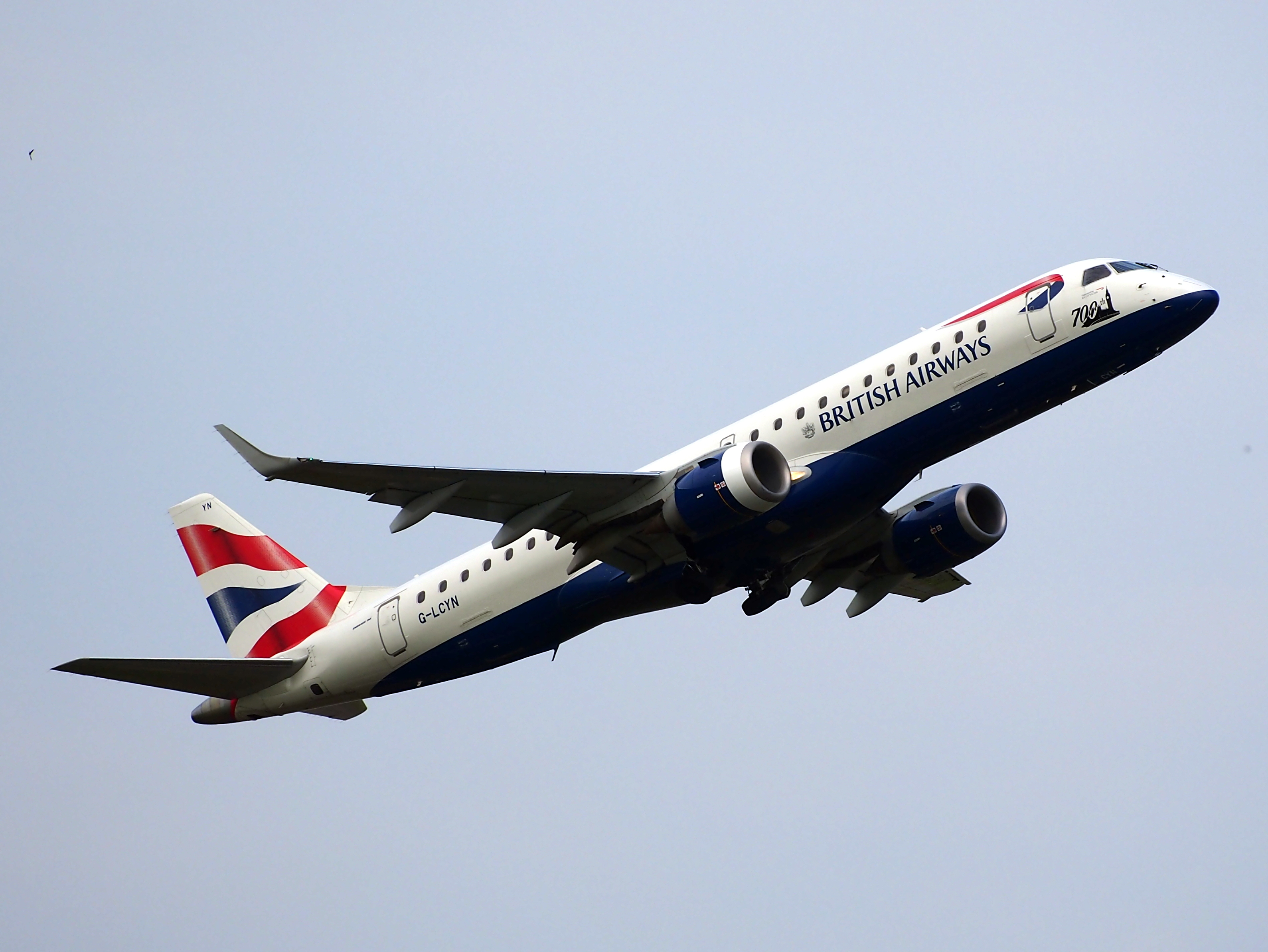 Photographed in Amsterdam.